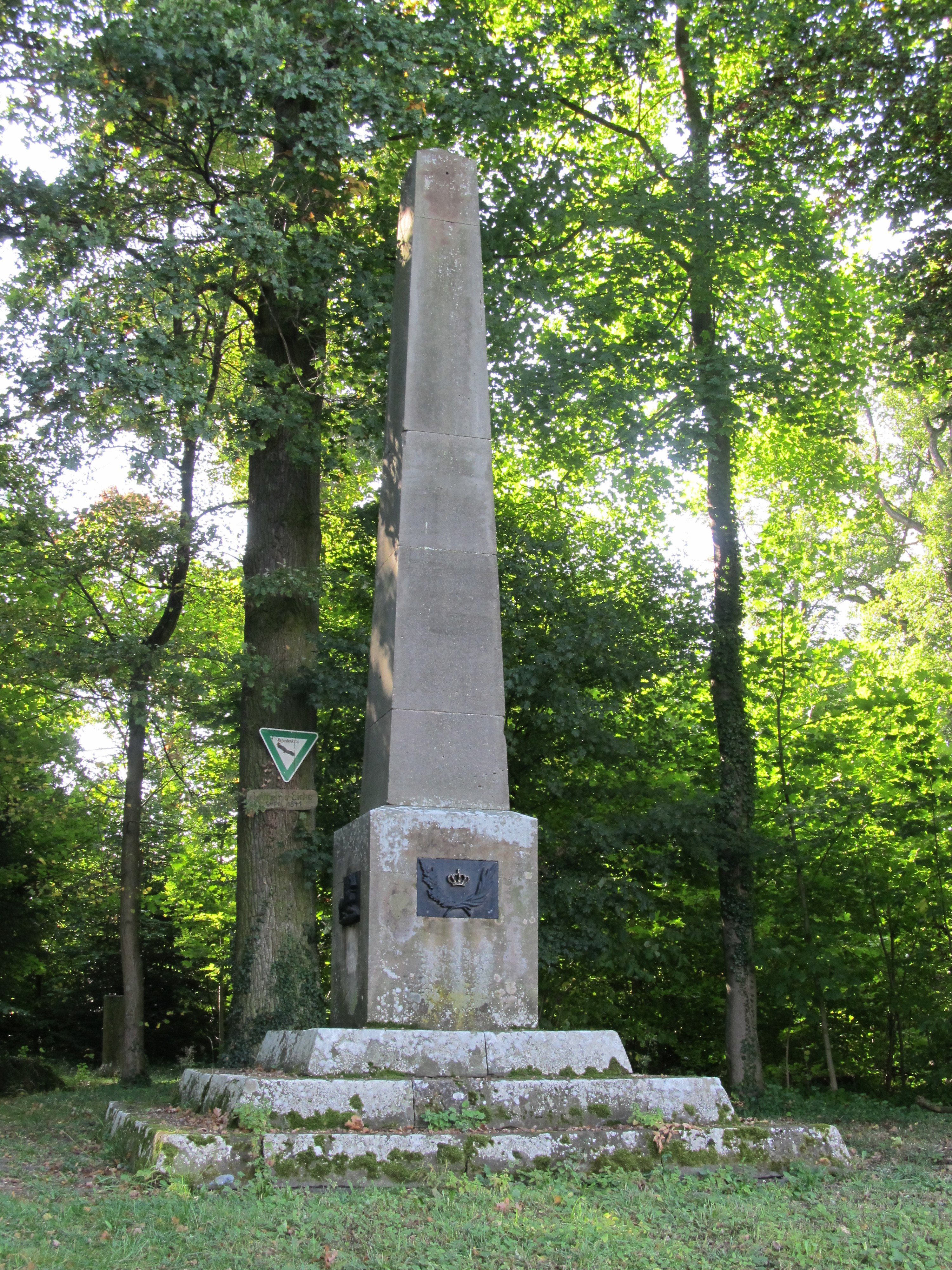 Goldboden-Monument near Manolzweiler (Winterbach, built 1842 to commemorate the 25th anniversary of reign of William I of Württemberg 1841. Behind the Wilhelmseiche which was also planted in honor of this anniversary.